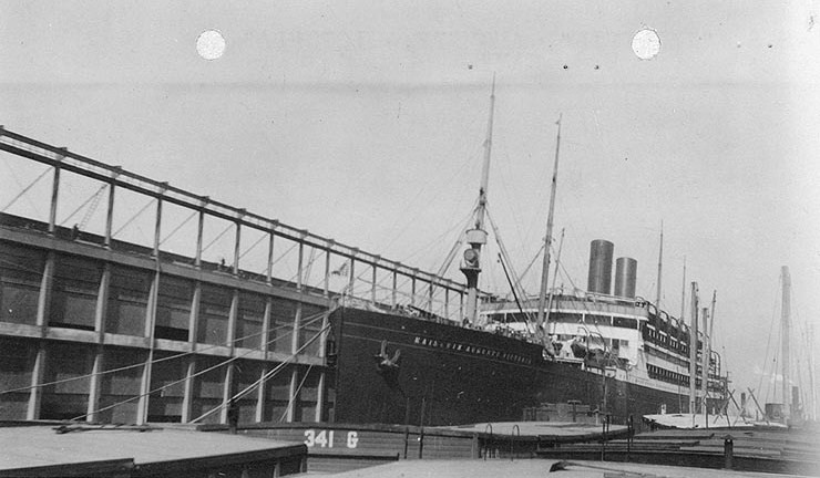 USS Kaiserin Auguste Victoria (ID # 3963) in port, probably at New York City.